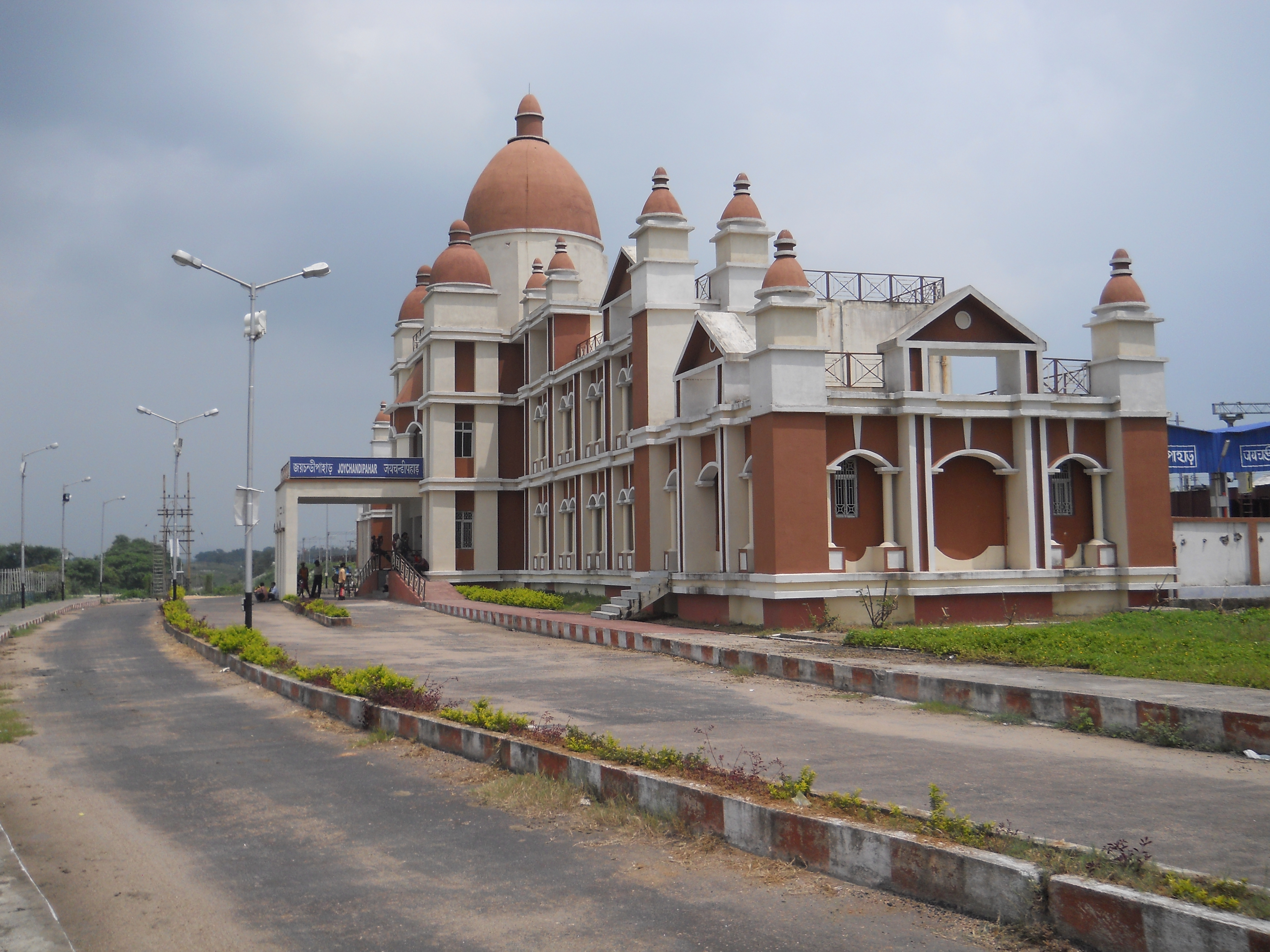 outside of Joychandi hill Railway Station, Purulia